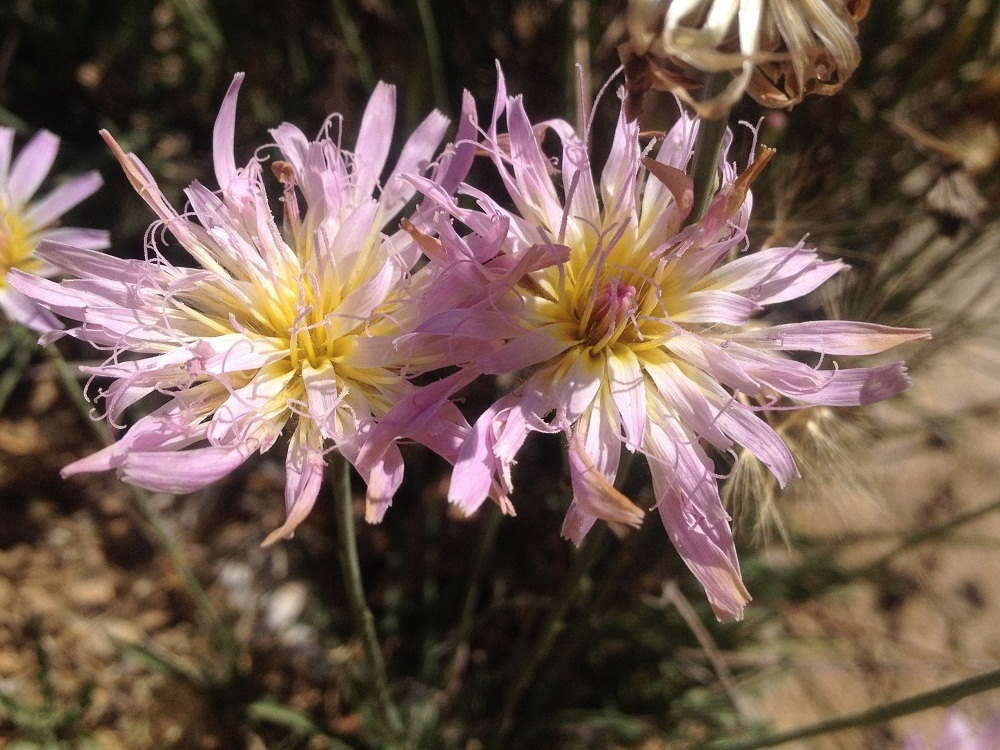 Pinaropappus roseus is a flowering plant in the daisy family (Asteraceae). It is native to Mexico and the SW United States.